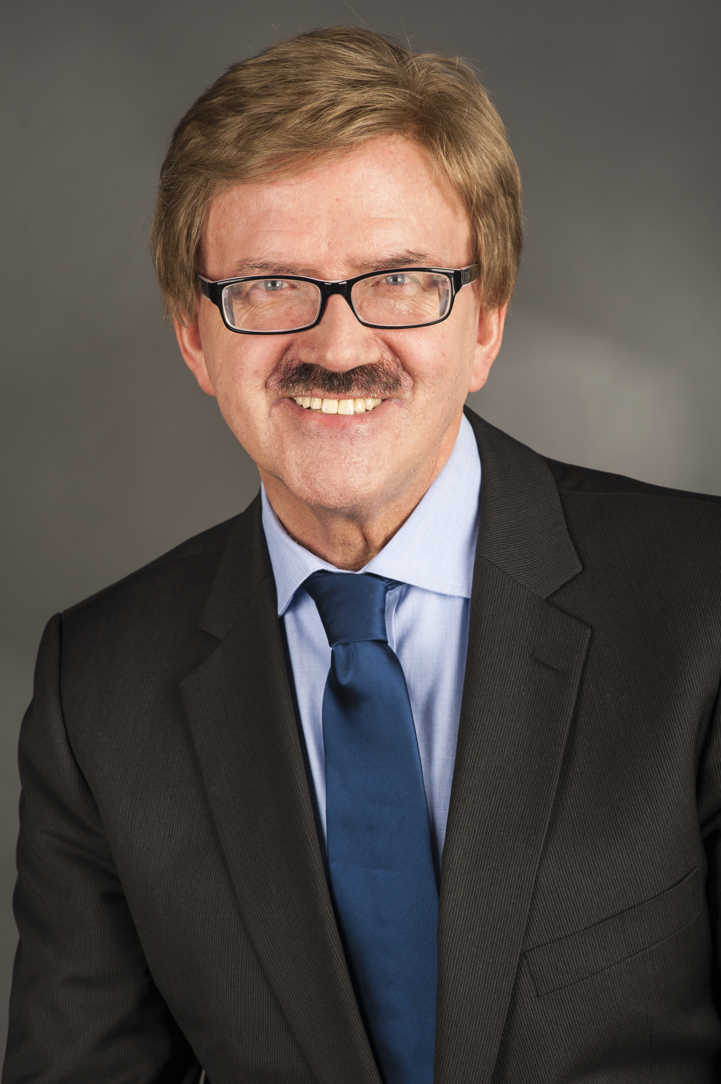 Thomas Mann